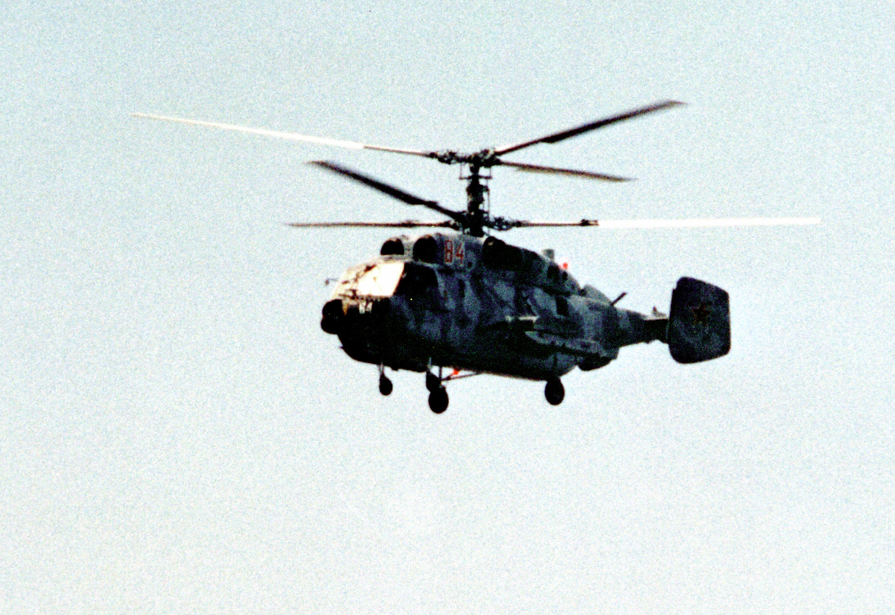 Kamov Ka-29 assault transport helicopter in flight (Vladivostok, USSR, 1990)